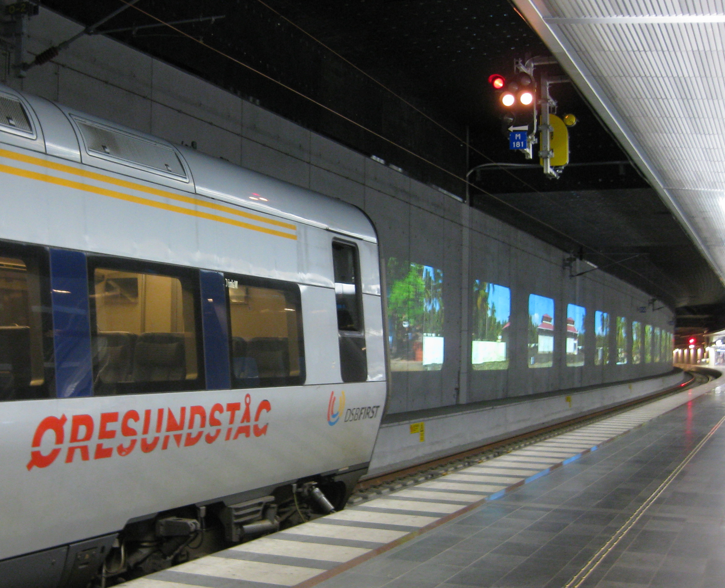 Subterrain part of Malmö C railway station in Malmö, Sweden